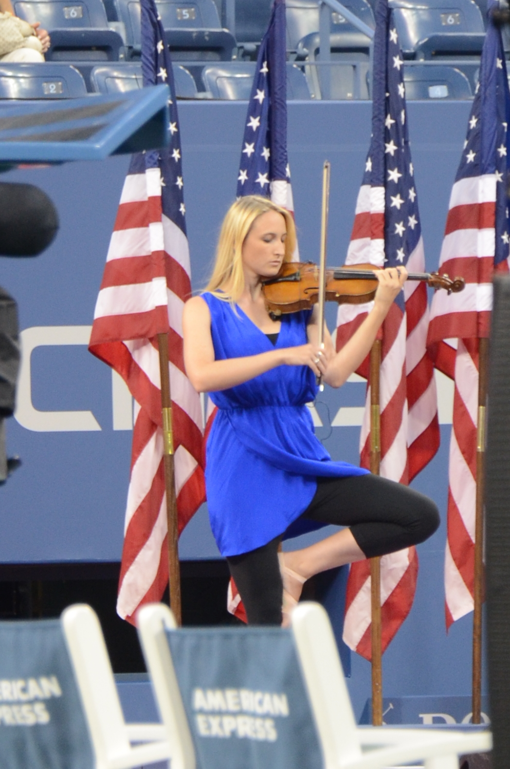 Violin player on Arthur Ashe Court